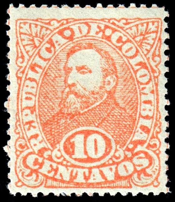 Colombia 1886 10c orange, unused. Depicting the first president of Colombia Rafael Núñez Catalogue: Sc. 131